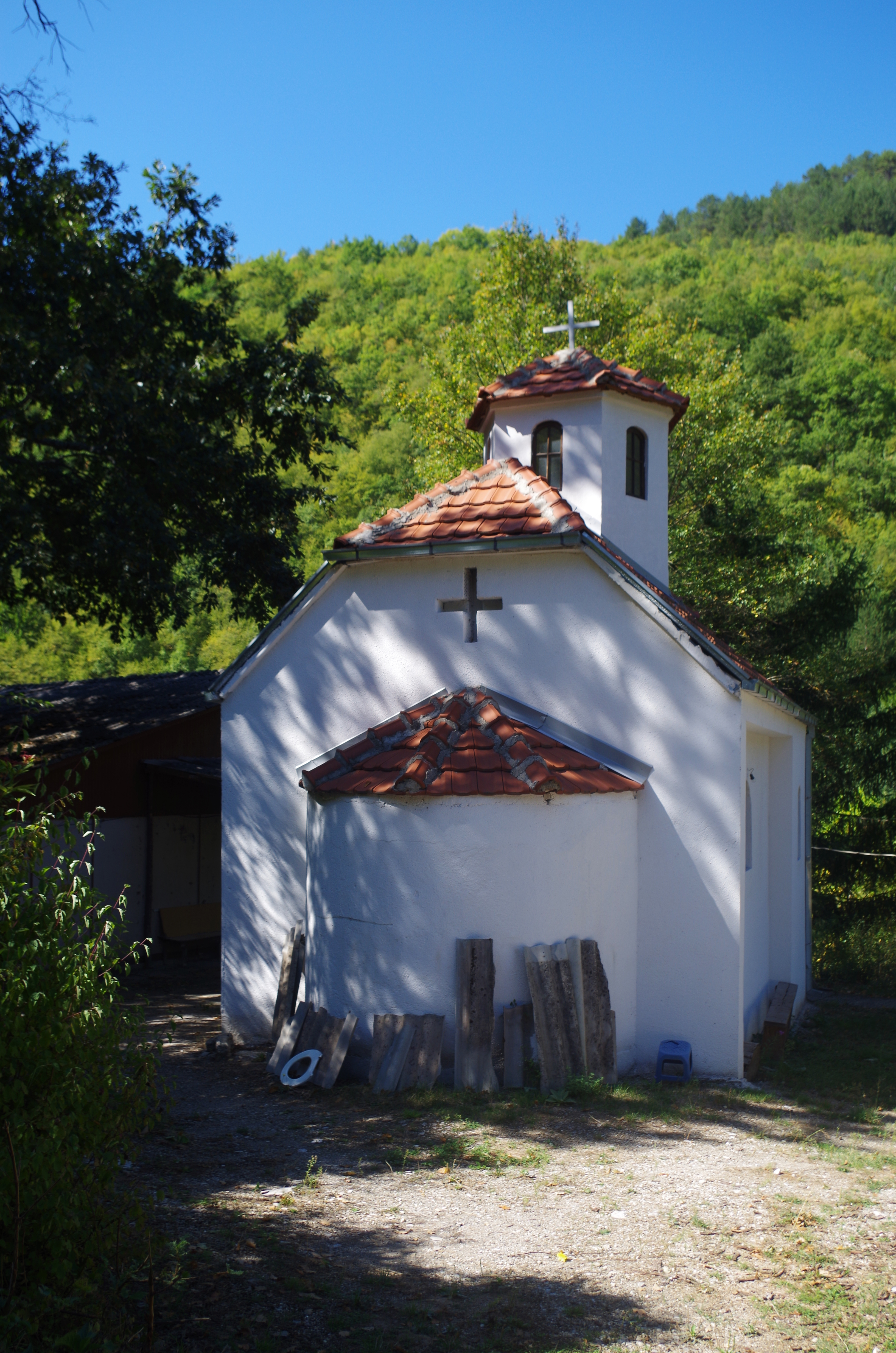 St. Peter's Church near the village of Rožden